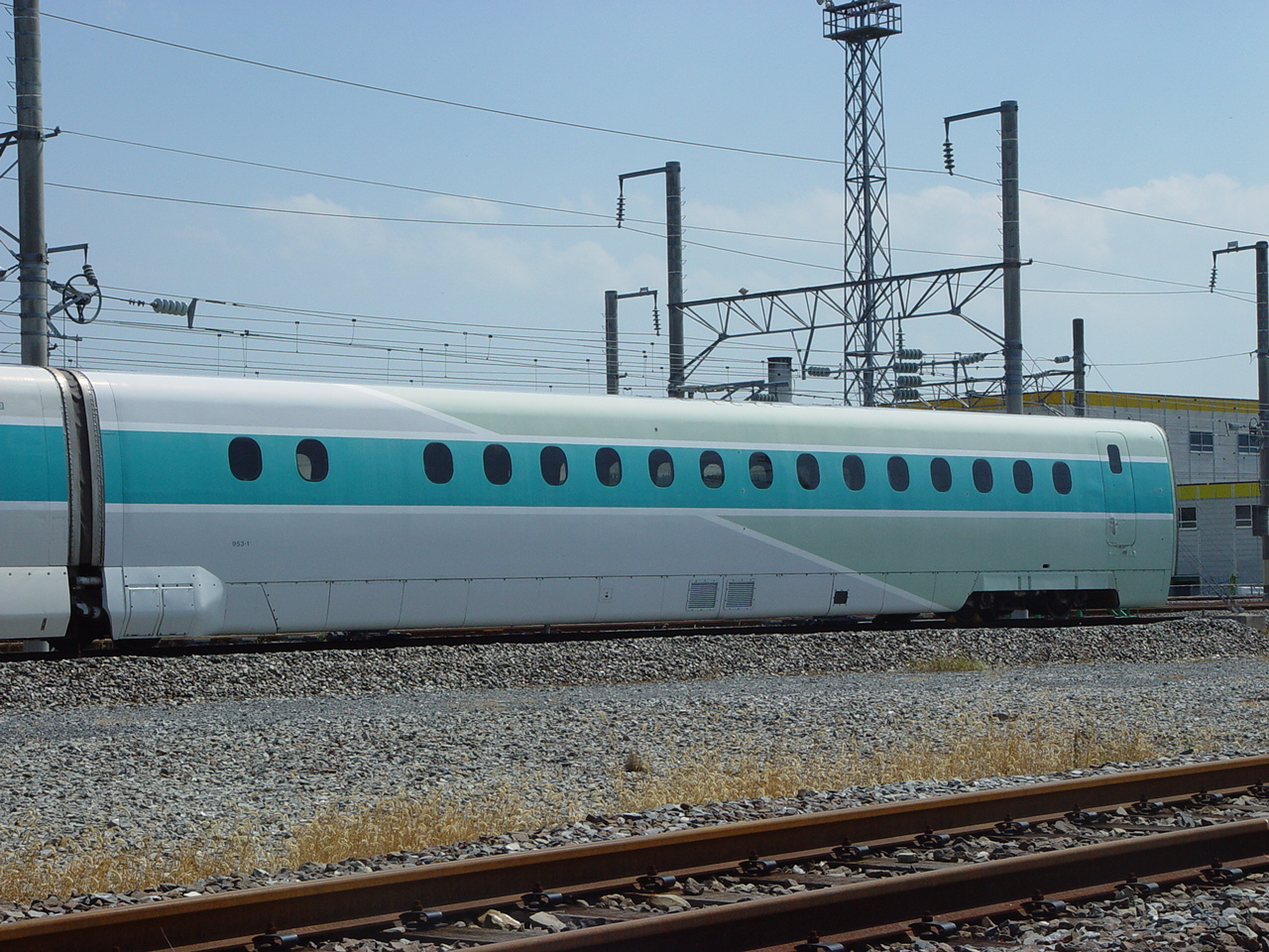 JR East "STAR21" experimental shinkansen car 953-1 preserved at Shinkansen General Rolling Stock Center